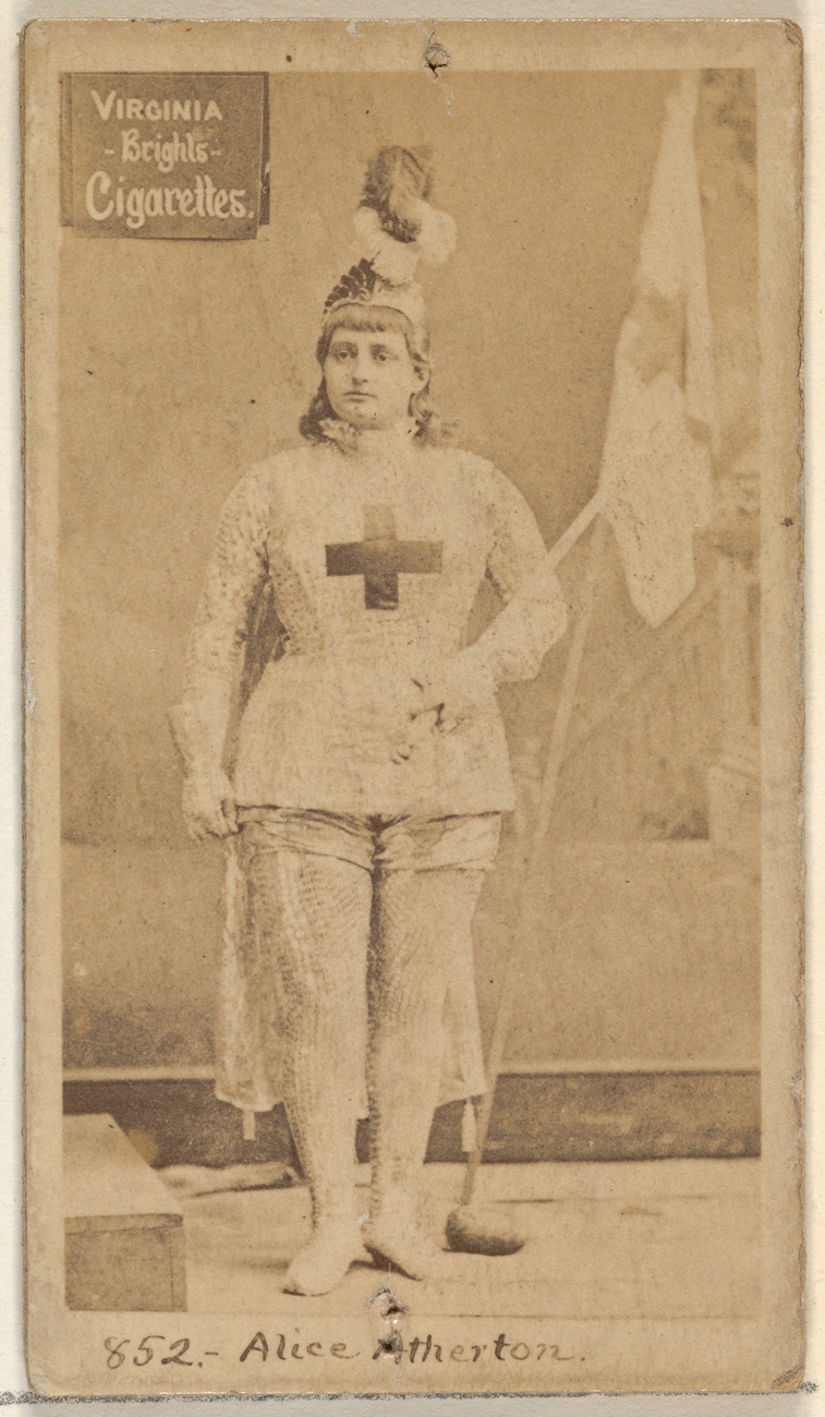 Photograph; Photographs/Ephemera